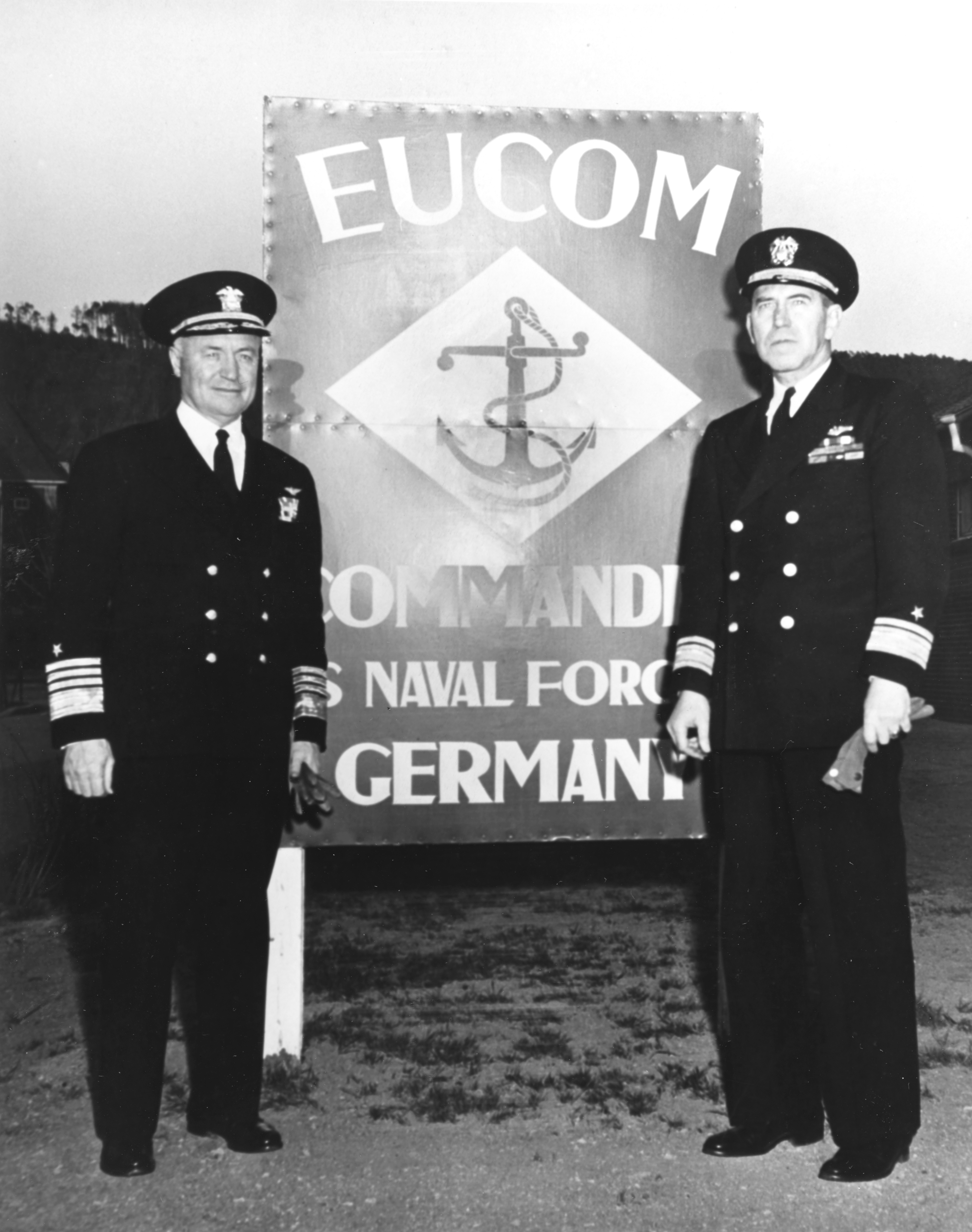 Admiral Forrest P. Sherman, U.S. Navy (left), Chief of Naval Operations, with Rear Admiral John Wilkes at Headquarters, Commander Naval Forces Germany, in Heidelberg, 27 March 1950.